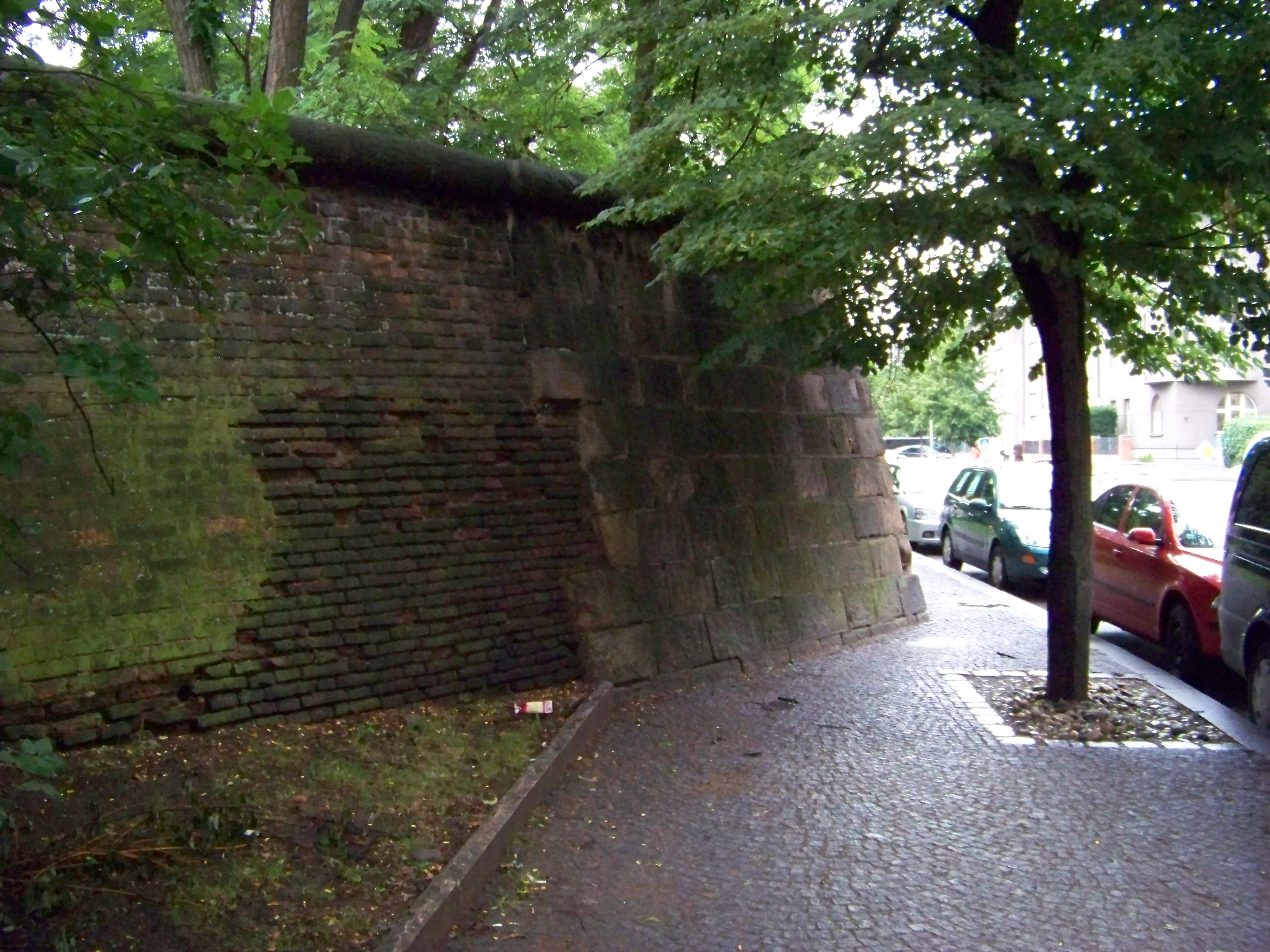 Prague-Hradčany, the Czech Republic. Na valech street, a wall.